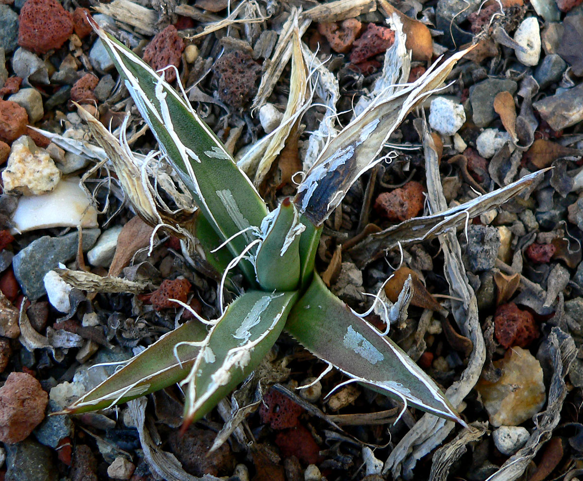 Agave parviflora at the University of California Botanical Garden, Berkeley, California